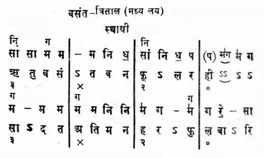 Notation example of Indian music, developed by Bhatkhande